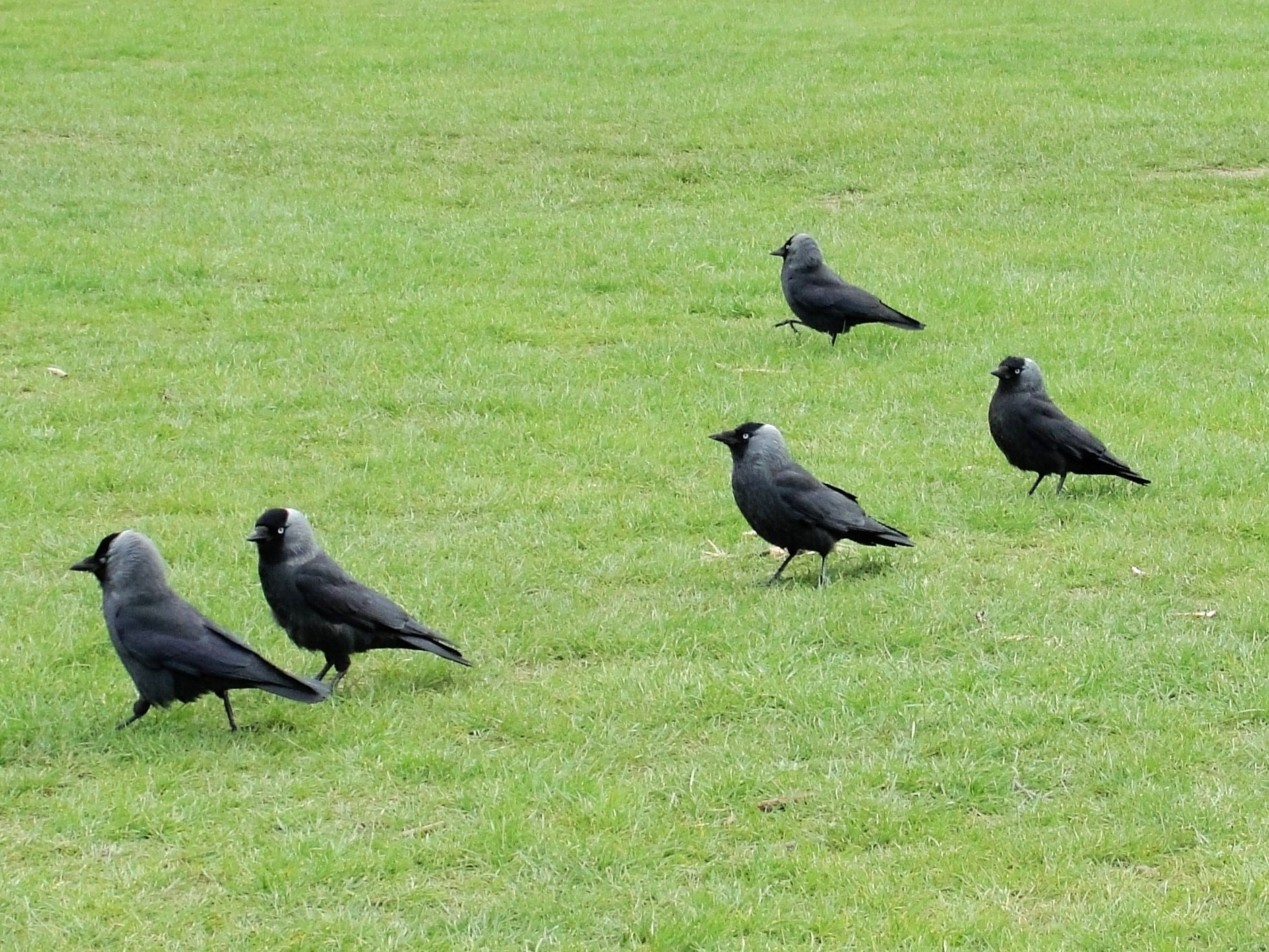 Several Jackdaws at Bushy Park, London Borough of Richmond upon Thames, England.